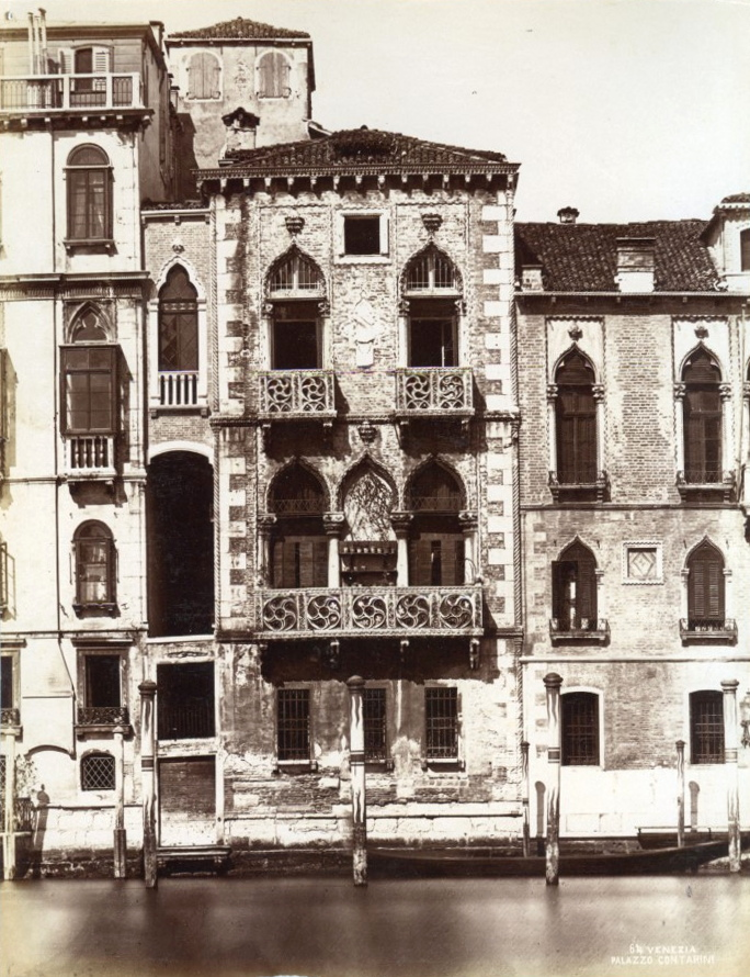 Carlo Naya (1822-1881) - "Venice - Palazzo Contarini Fasan" palace. Catalogue #: 64 (quater). 1870s 1870s 2007.